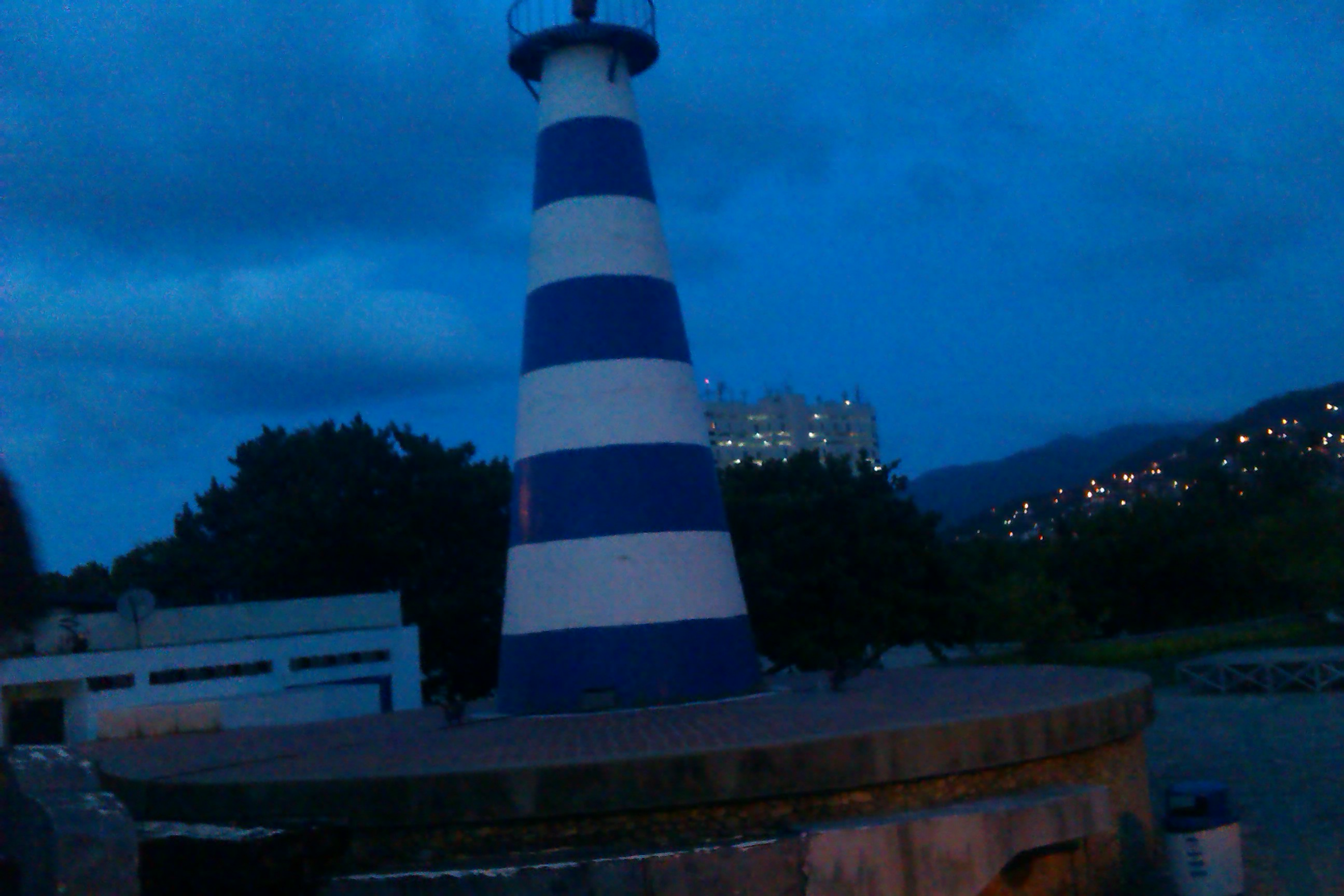 Faro funcional en el estado Vargas, Club Puerto Azul